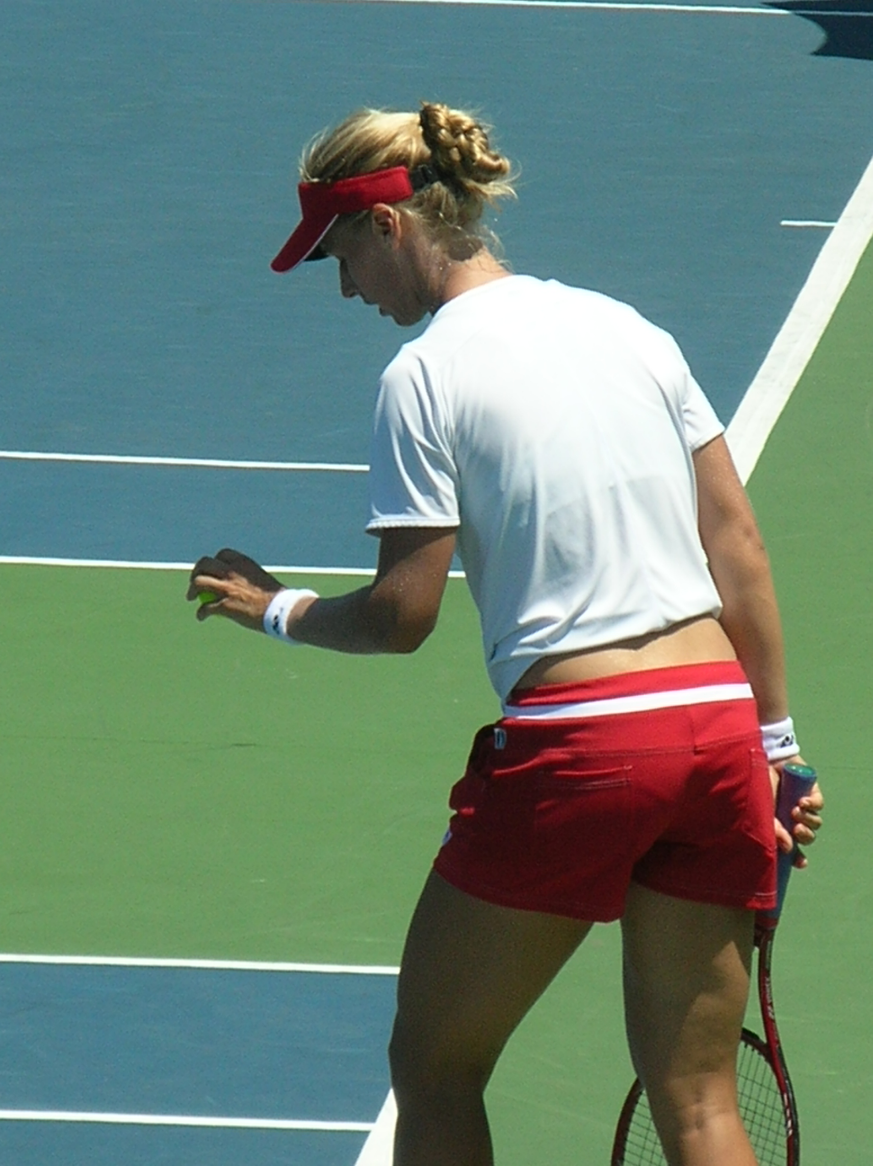 Elena Dementieva practicing at the Bank of the West Classic at Stanford.